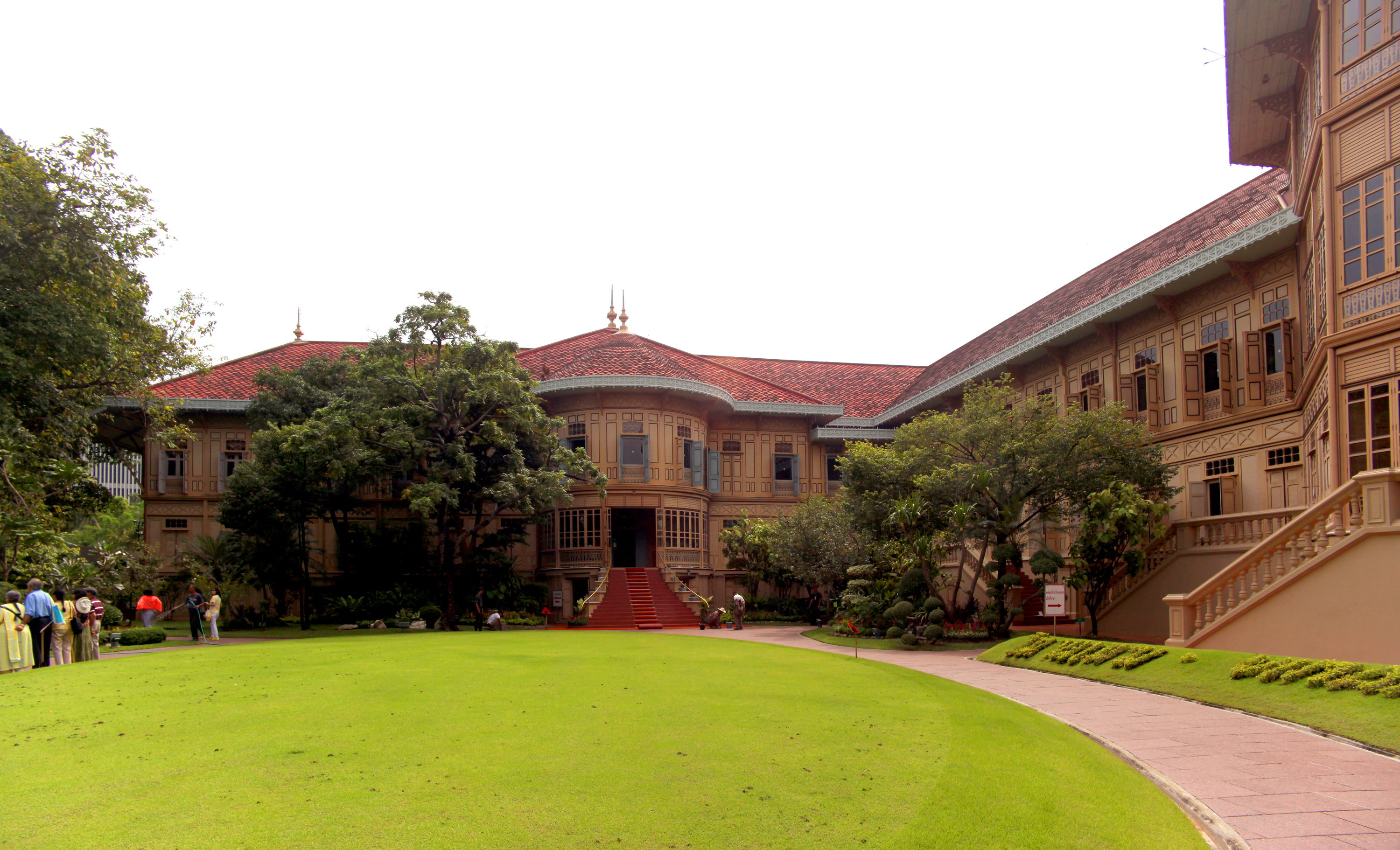 Vimanmek Palace